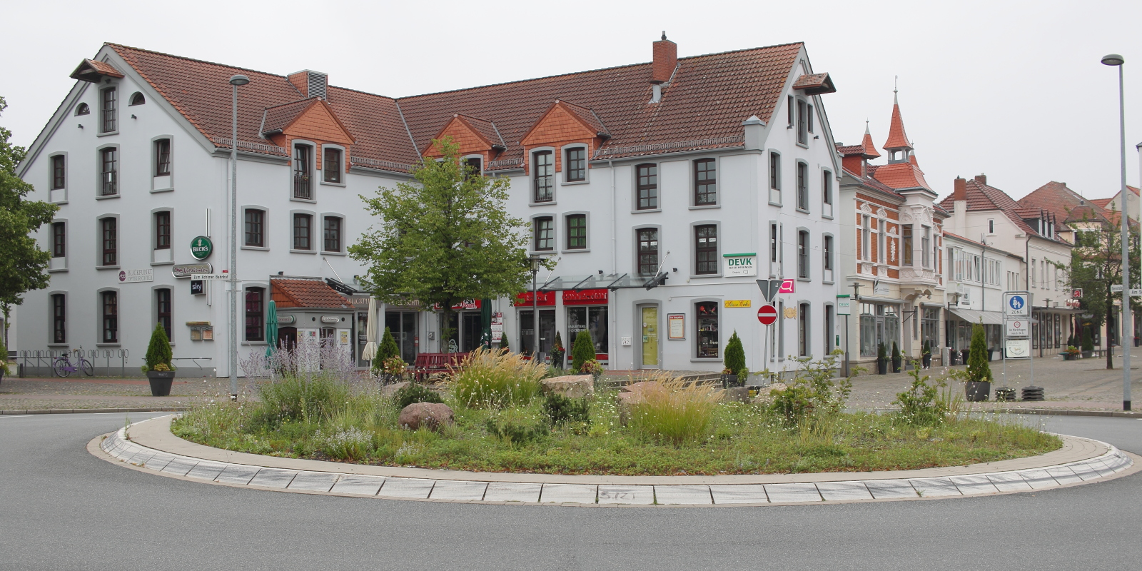 Roundabout and western origin of pedestrian zone (Obernstrasse) in Achim (Germany).